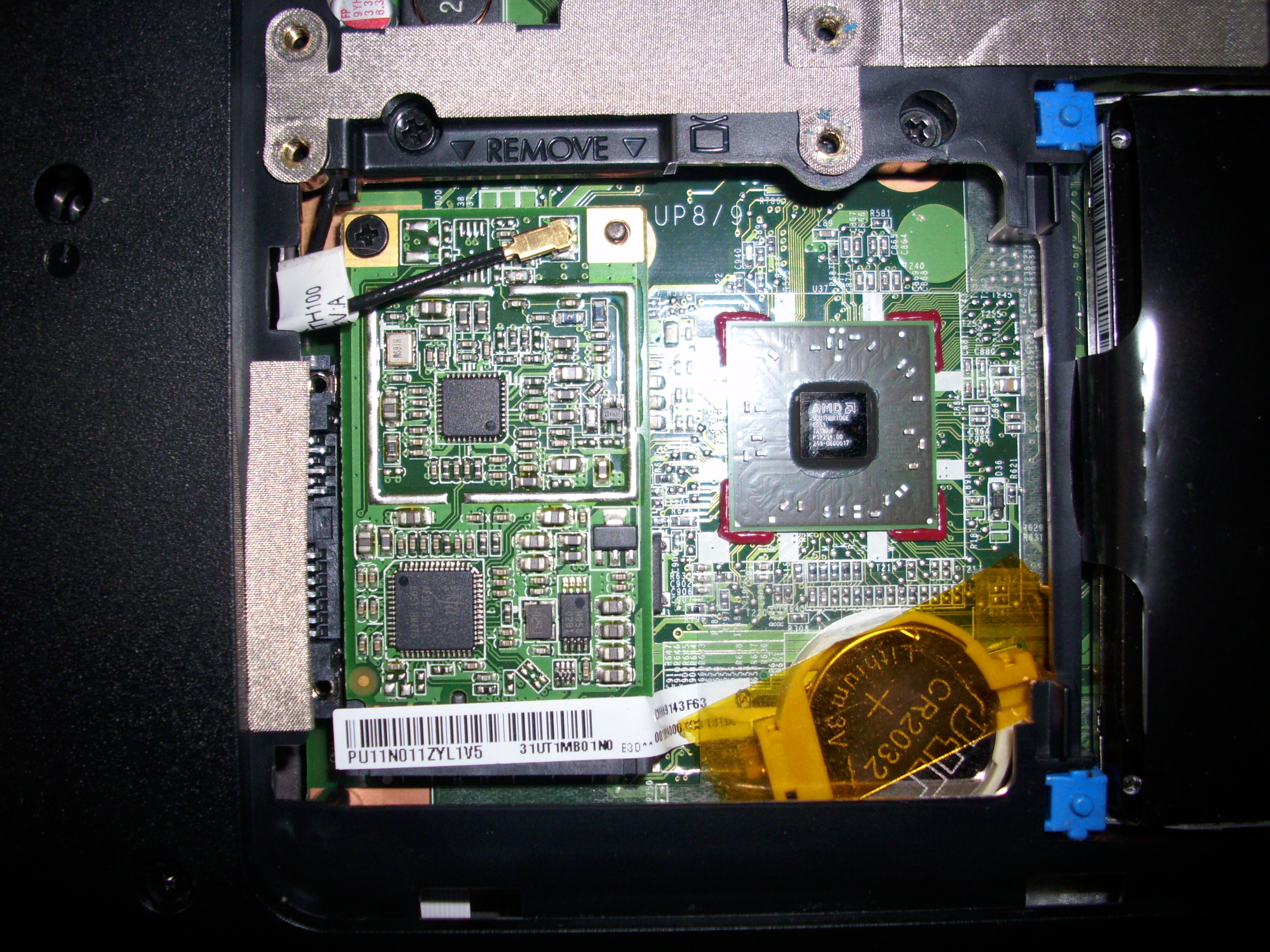 Bulit-in DVB-T TV card on HP Pavilion laptop dv7-3115ew, based on AF9015 chip. TV card is connected through the USB bus. Also visible Southbridge AMD and CMOS battery.